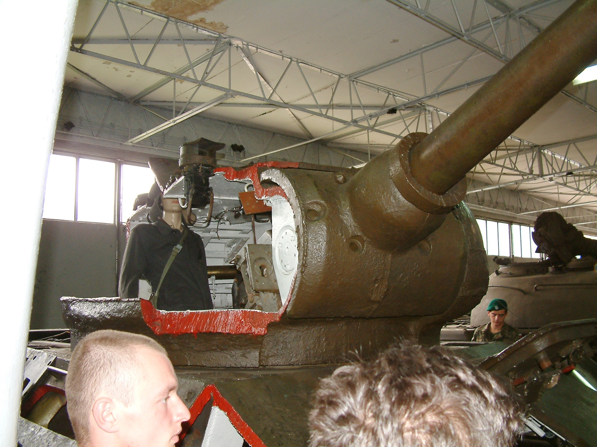 T-34 No. 102 "Rudy"